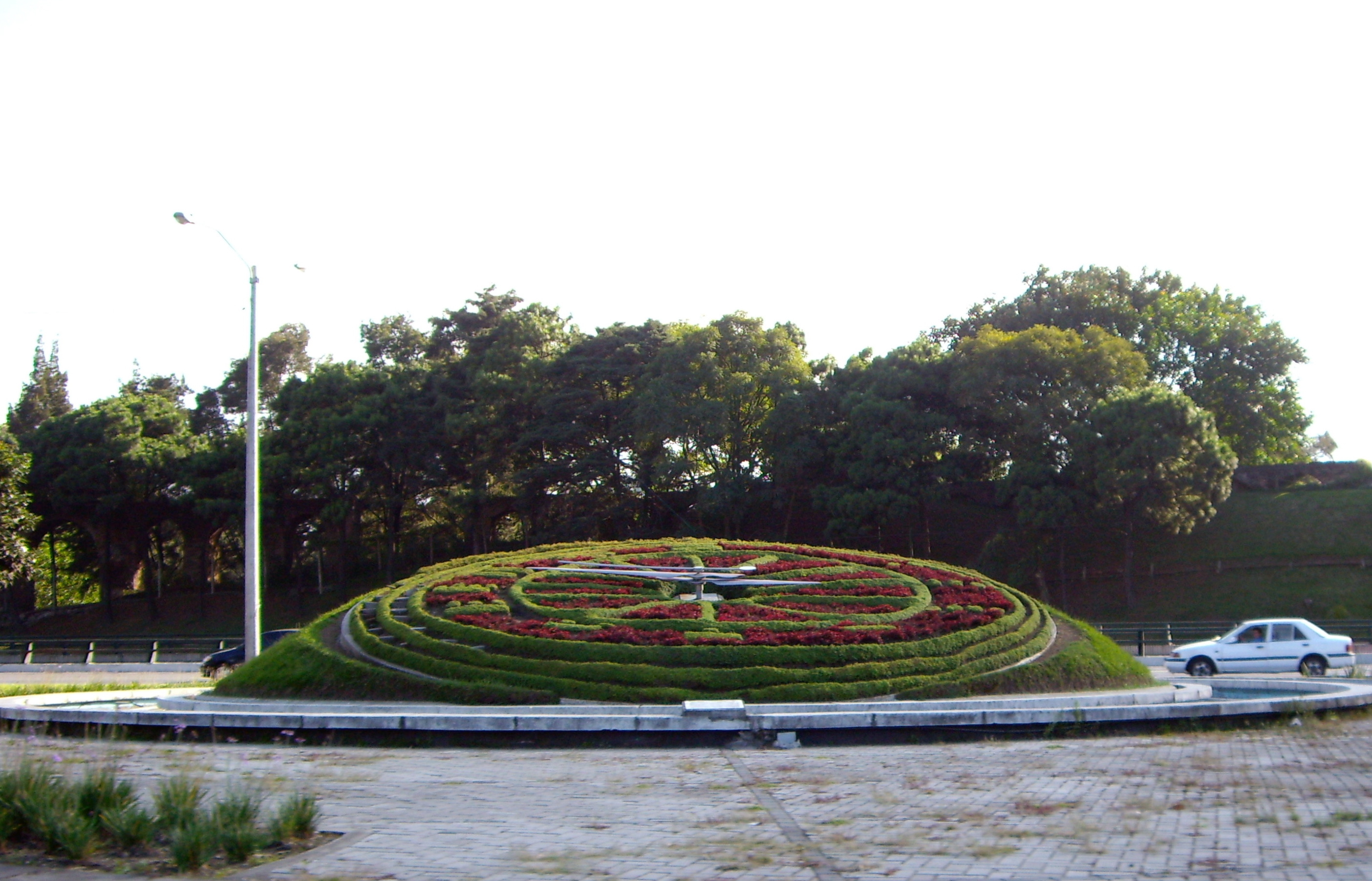 Flower clock at Boulevard Liberación, Guatemala City